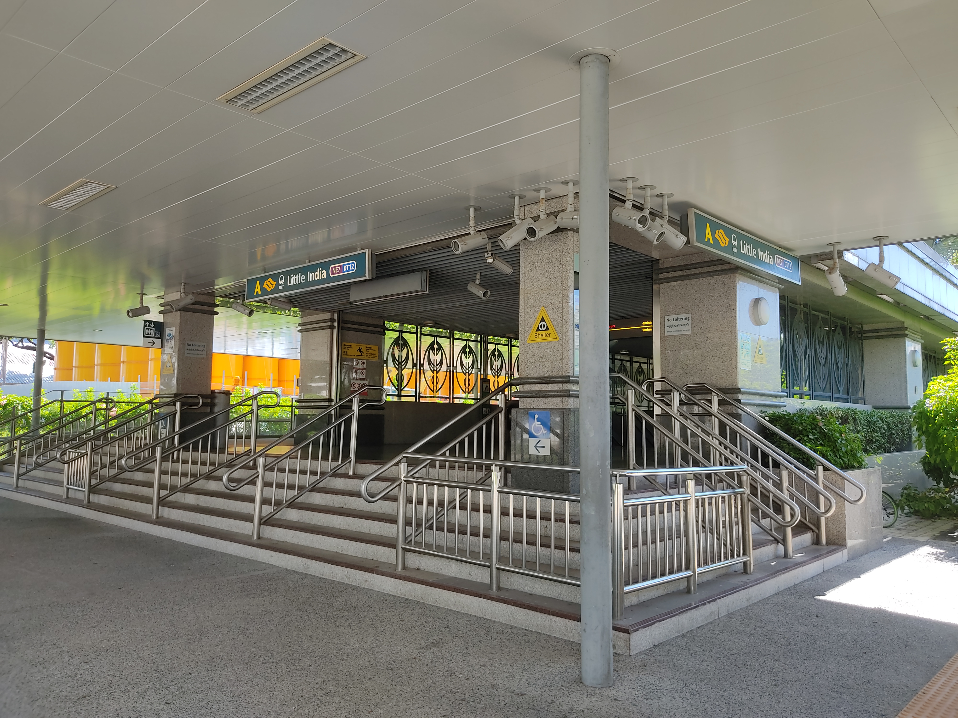 Exit A of Little India station